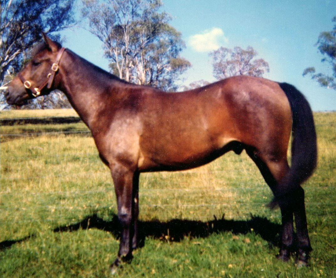 One of the handy types of brumbies that was caught in what is now the Oxley Wild Rivers National Park. He was broken in and was a safe and reliable mount for an septuegenarian lady rider.